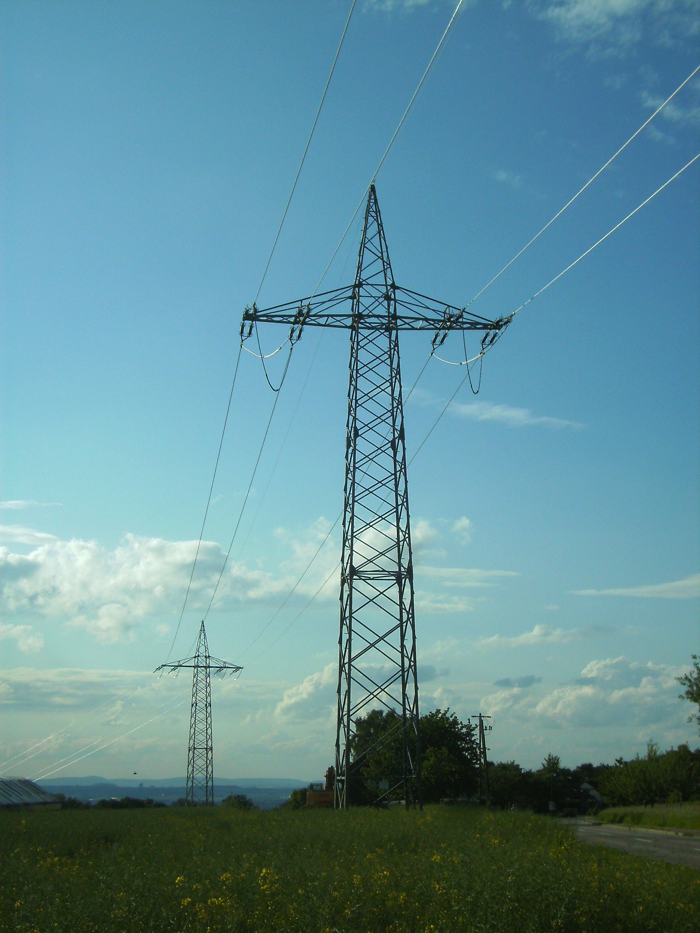 Twisting pylon and strainer of traction current power line Plochingen-Zazenhausen. The pylon stands on a refurbishment basement of a 220 kV-pylon, which was dismantled in 2008.